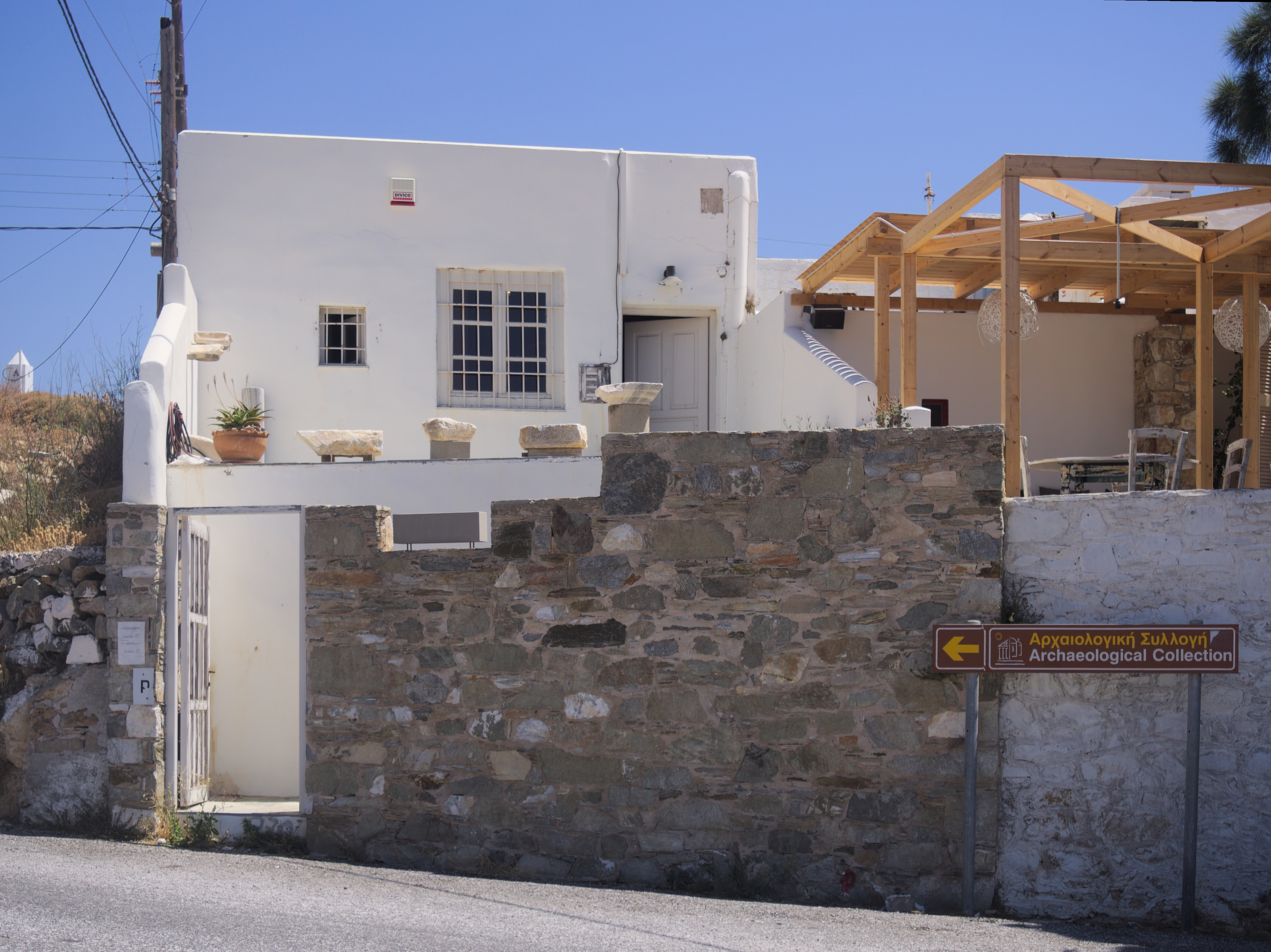 The building that houses the (small) archaeological collection of Serifos.